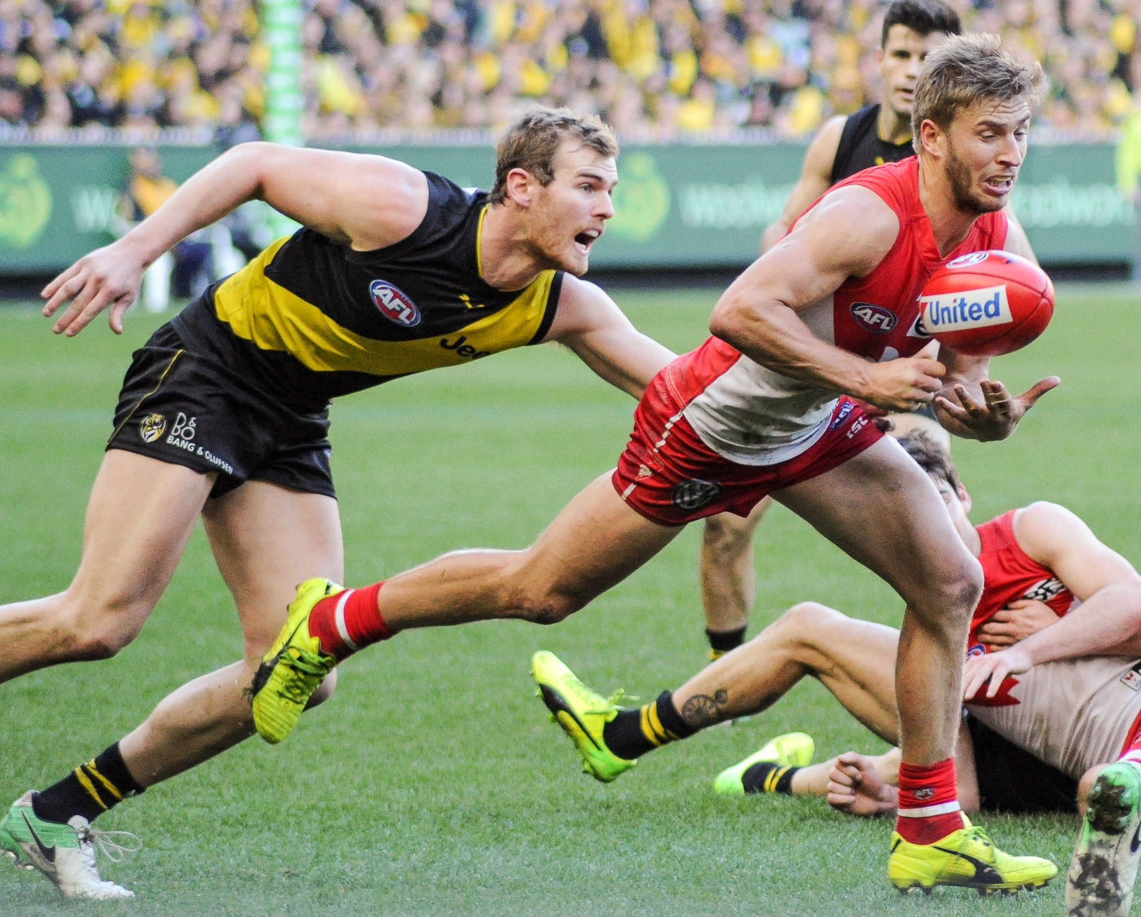 Kieren Jack handballing away from David Astbury during the AFL round thirteen match between Richmond and Sydney on 17 June 2017 at the Melbourne Cricket Ground in Melbourne, Victoria.